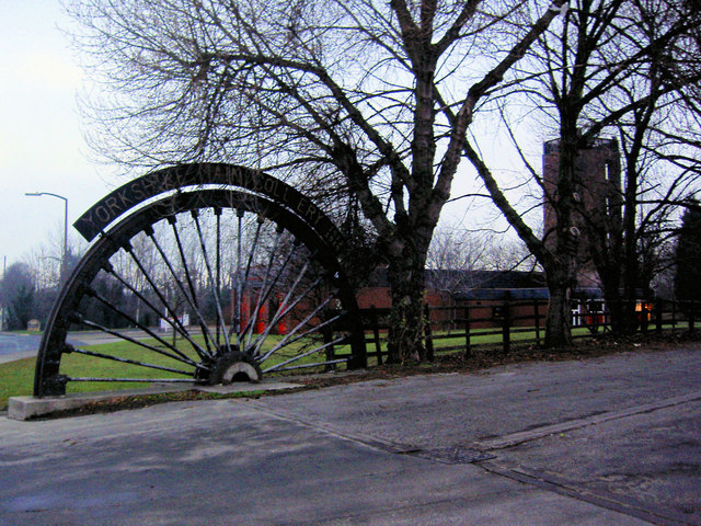 Winding wheel from Yorkshire Main Colliery 1911 to 1985